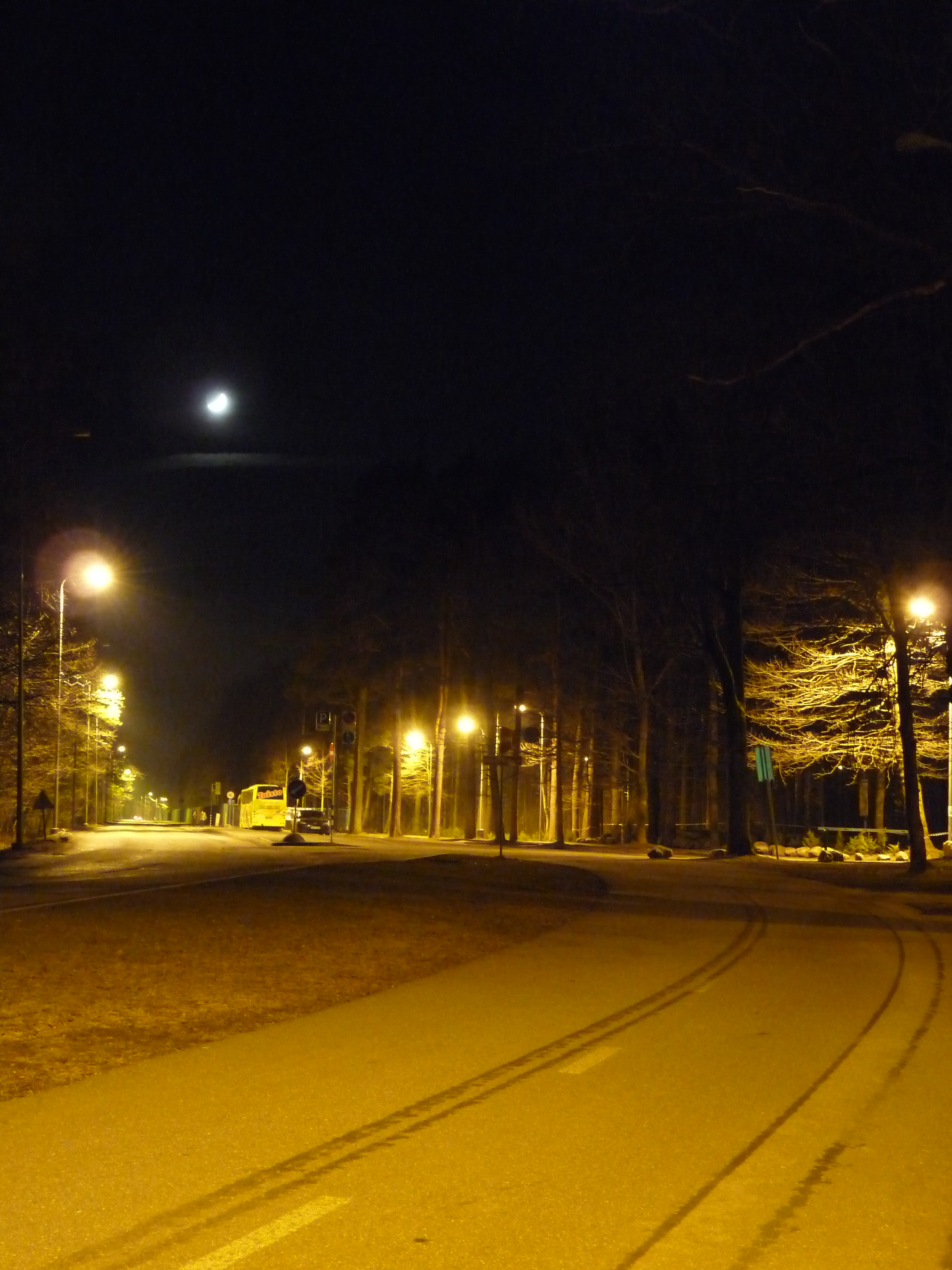 Vabaõhumuuseumi street in Tallinn, Estonia